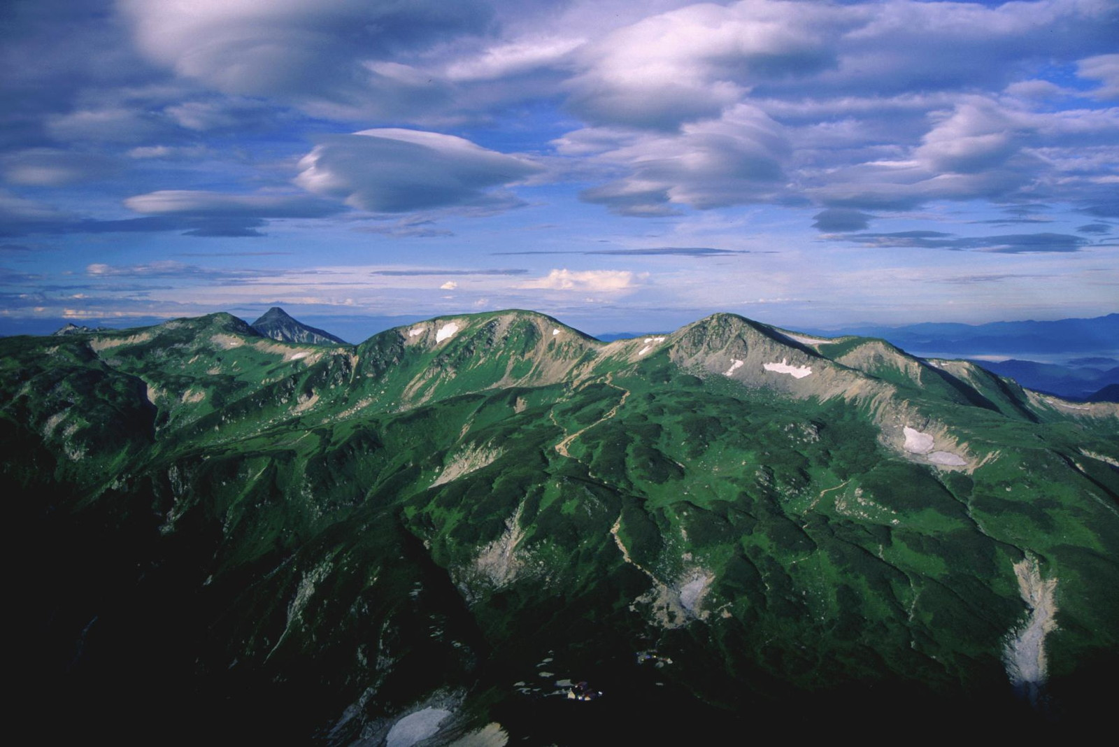 Mount_Mitsumatarenge_from_Mount_Washiba and Lenticular cloud